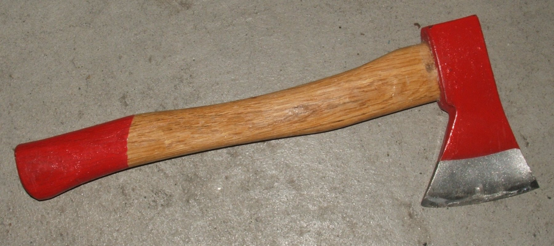 Hatchet